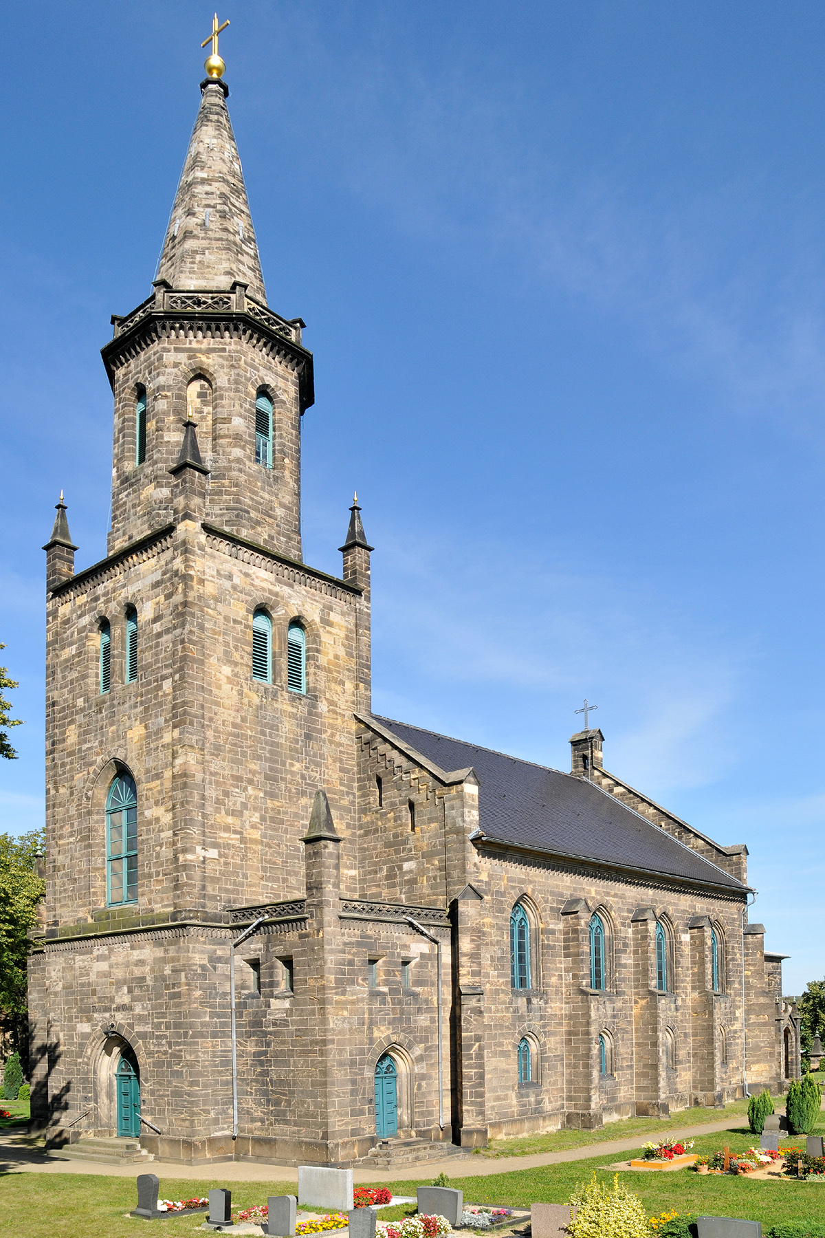 Leuba, church Nikolai, seen from southwest